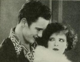 A still from Get Your Man featuring Charles "Buddy" Rogers and Clara Bow from Photoplay, February 1928.